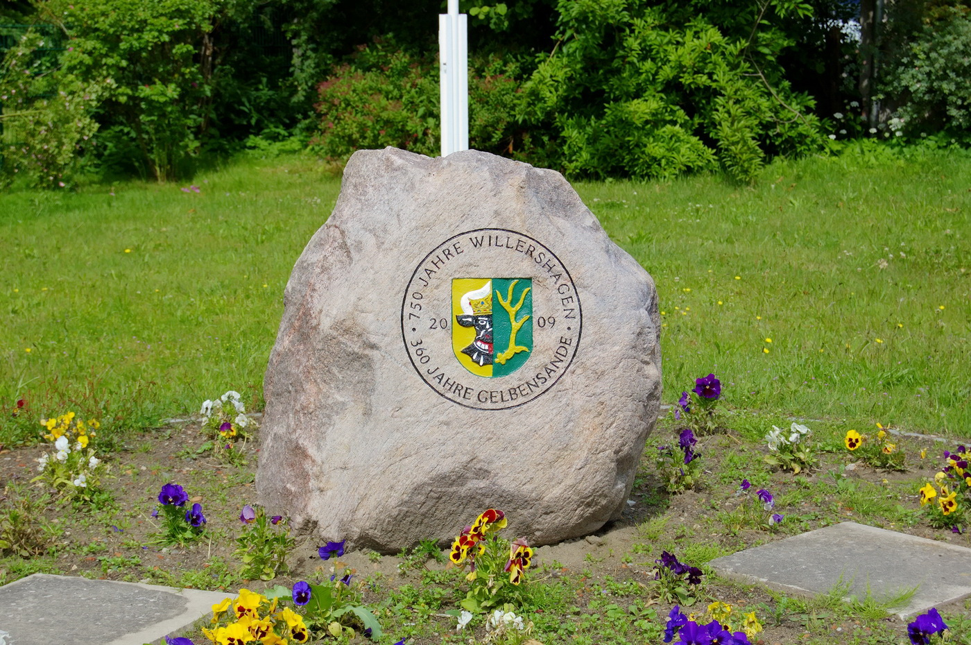 memorial stone of the jubilee of Gelbensande